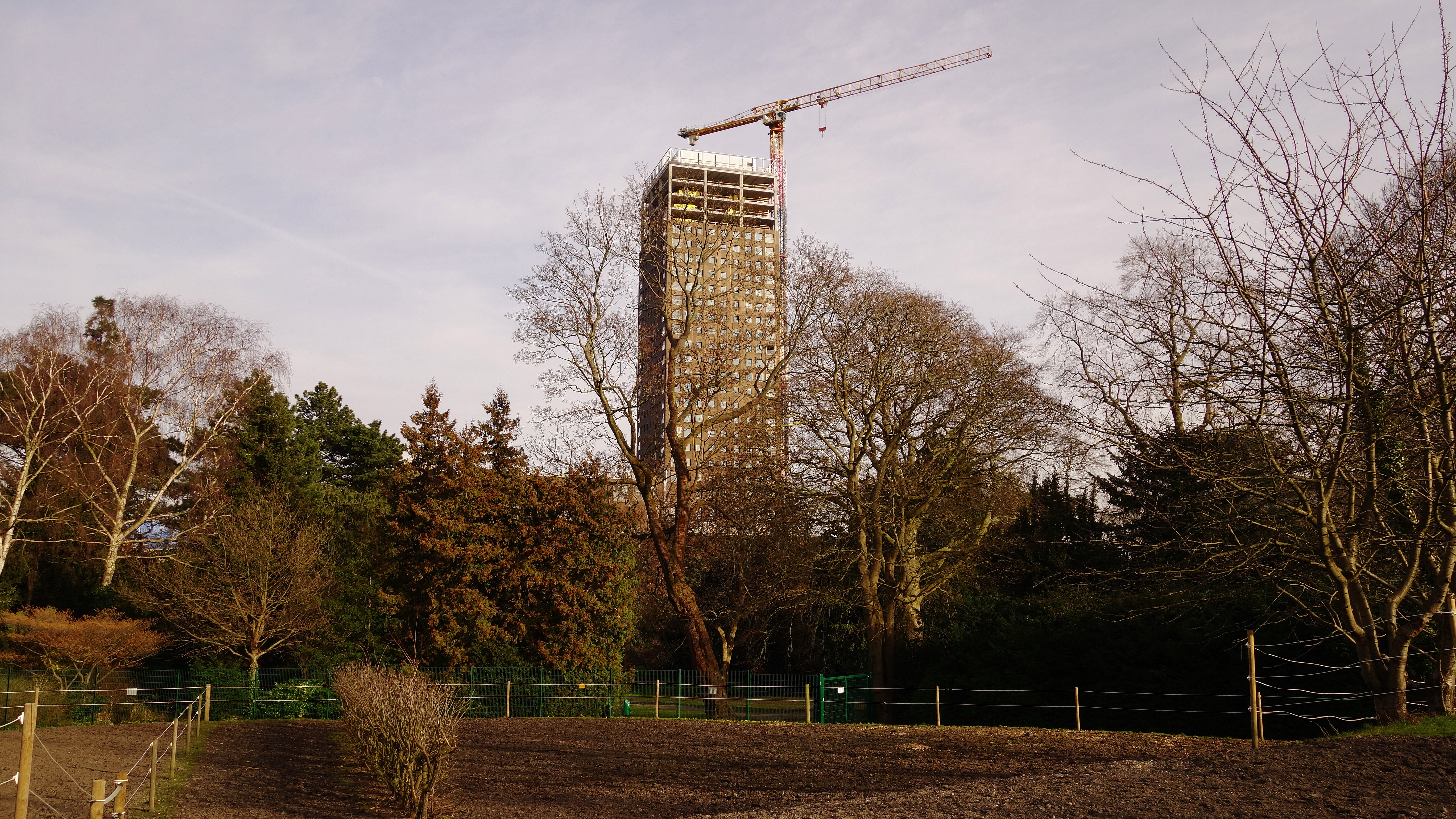 Carlsberg Byen - Bohrs Tower under construction